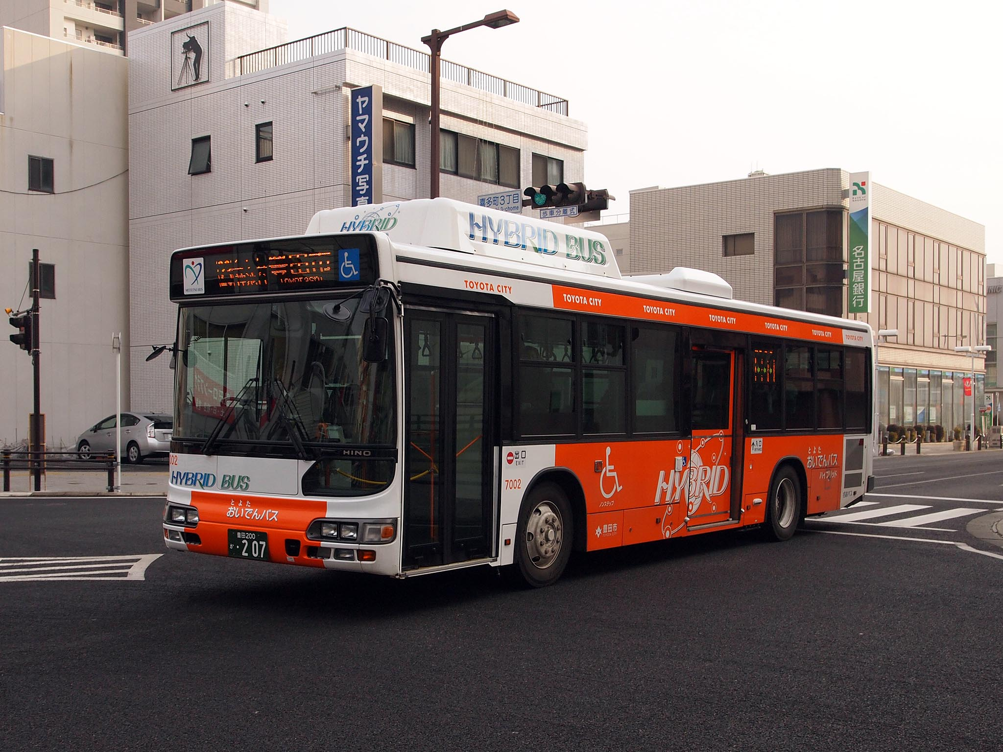 Fleet of Meitetsu Bus, for Toyota Oiden Bus. Model: Hino Blue Ribbon City Hybrid BJG-HU8JLFP License plate: ACY200 KA-207 Place: Kitamachi, Toyota City, Aichi Japan